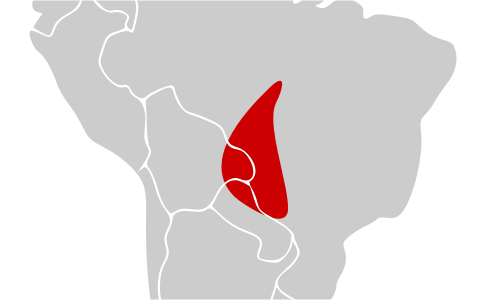 Distribution map for Hyphessobrycon eques